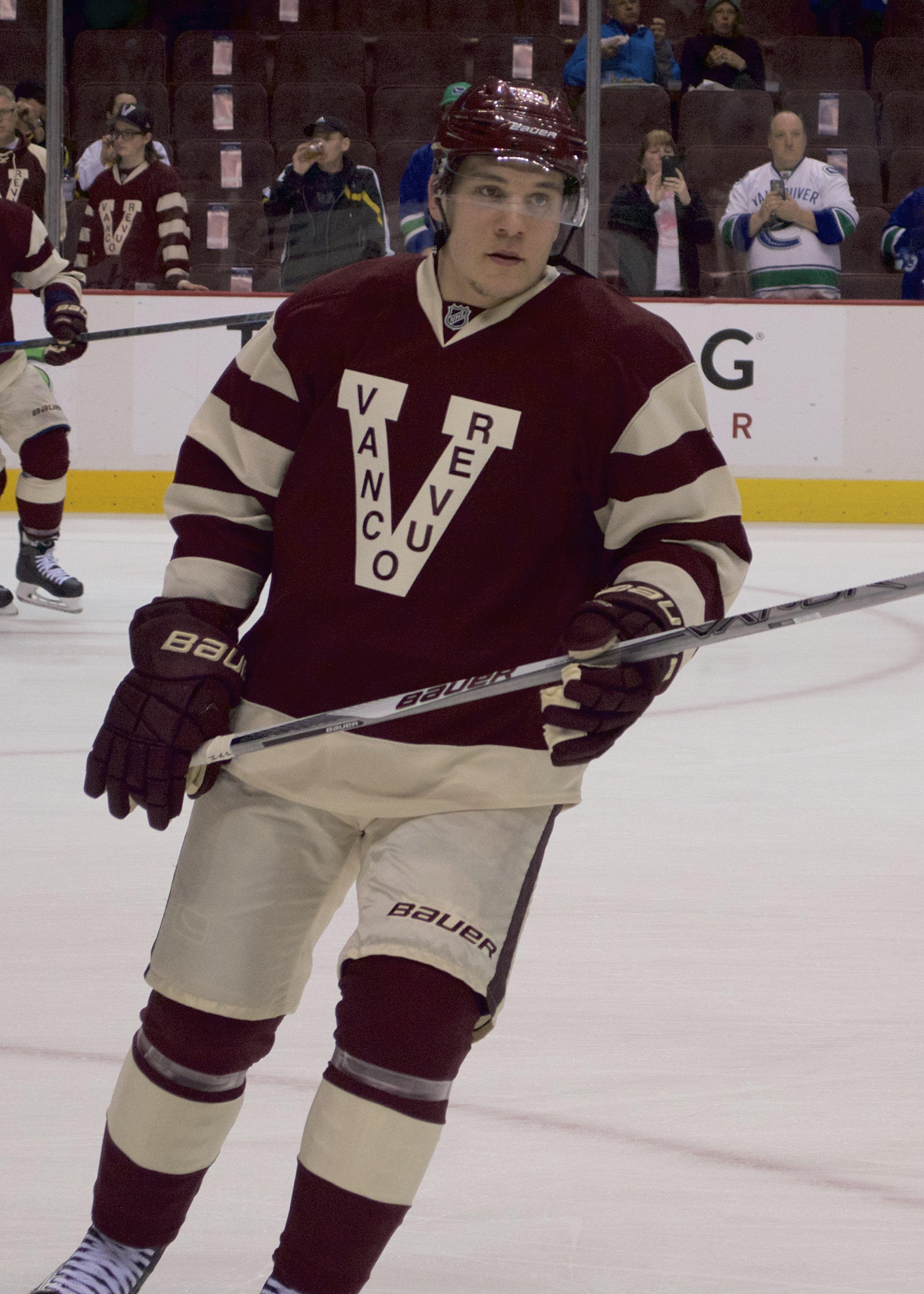 Vancouver Canucks centre Bo Horvat during a pre-game warm up on March 26, 2015 at Rogers Arena. The team wore Vancouver Millionaires jerseys commemorating the Millionaires' 1915 Stanley Cup victory.